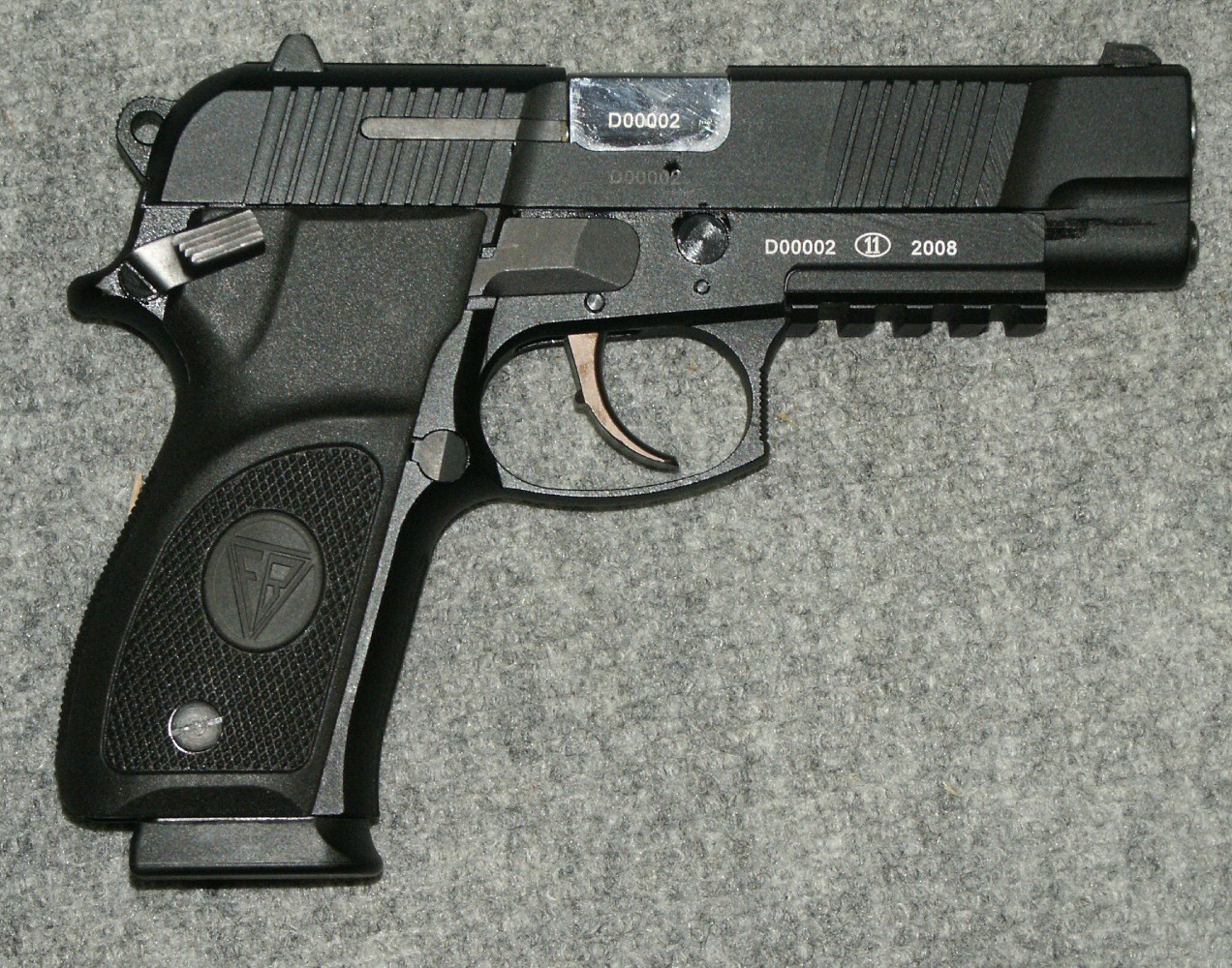 Polish pistol MAG 08.